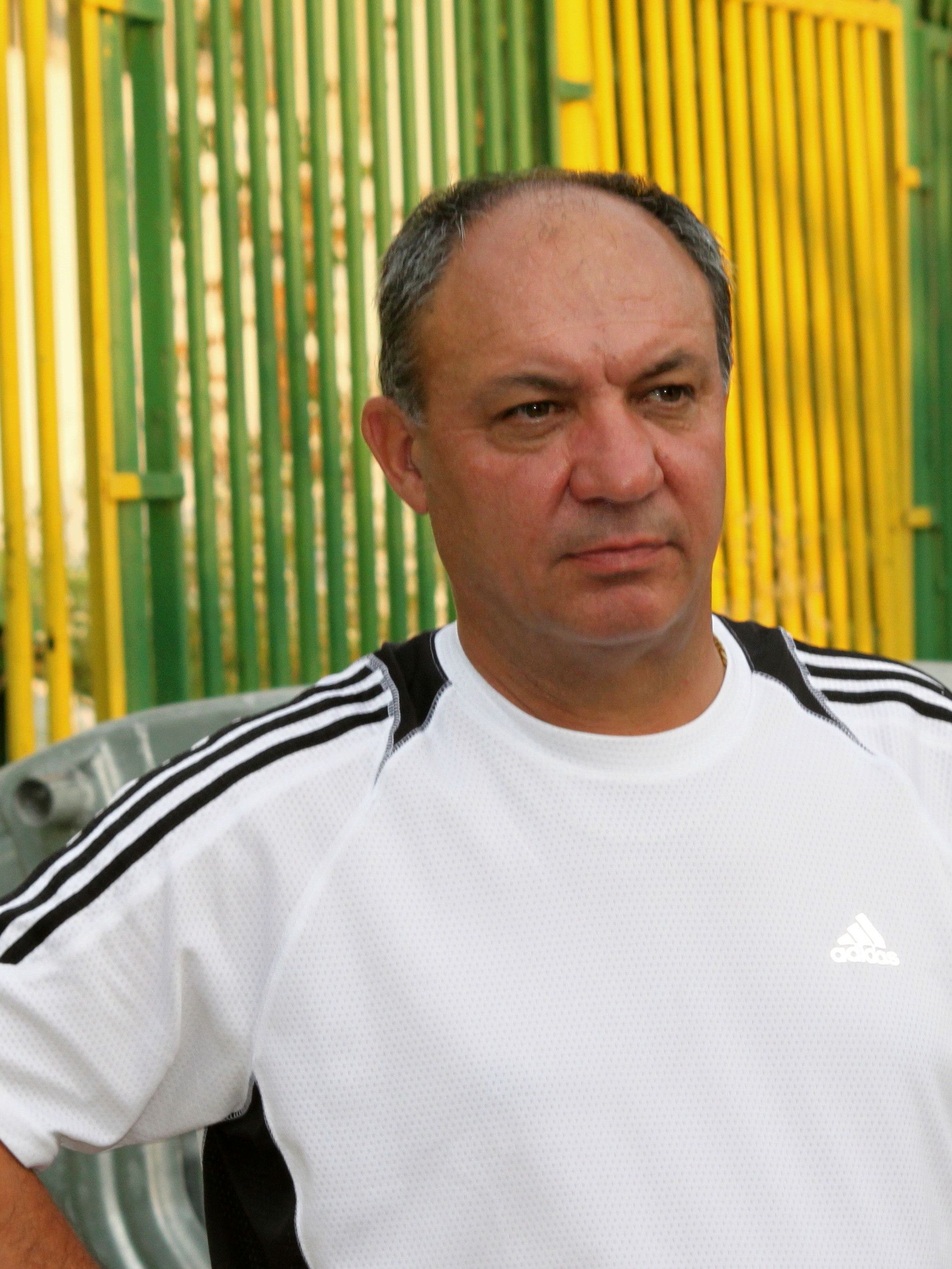 Plamen Nikolov - former bulgarian soccer player, national player.